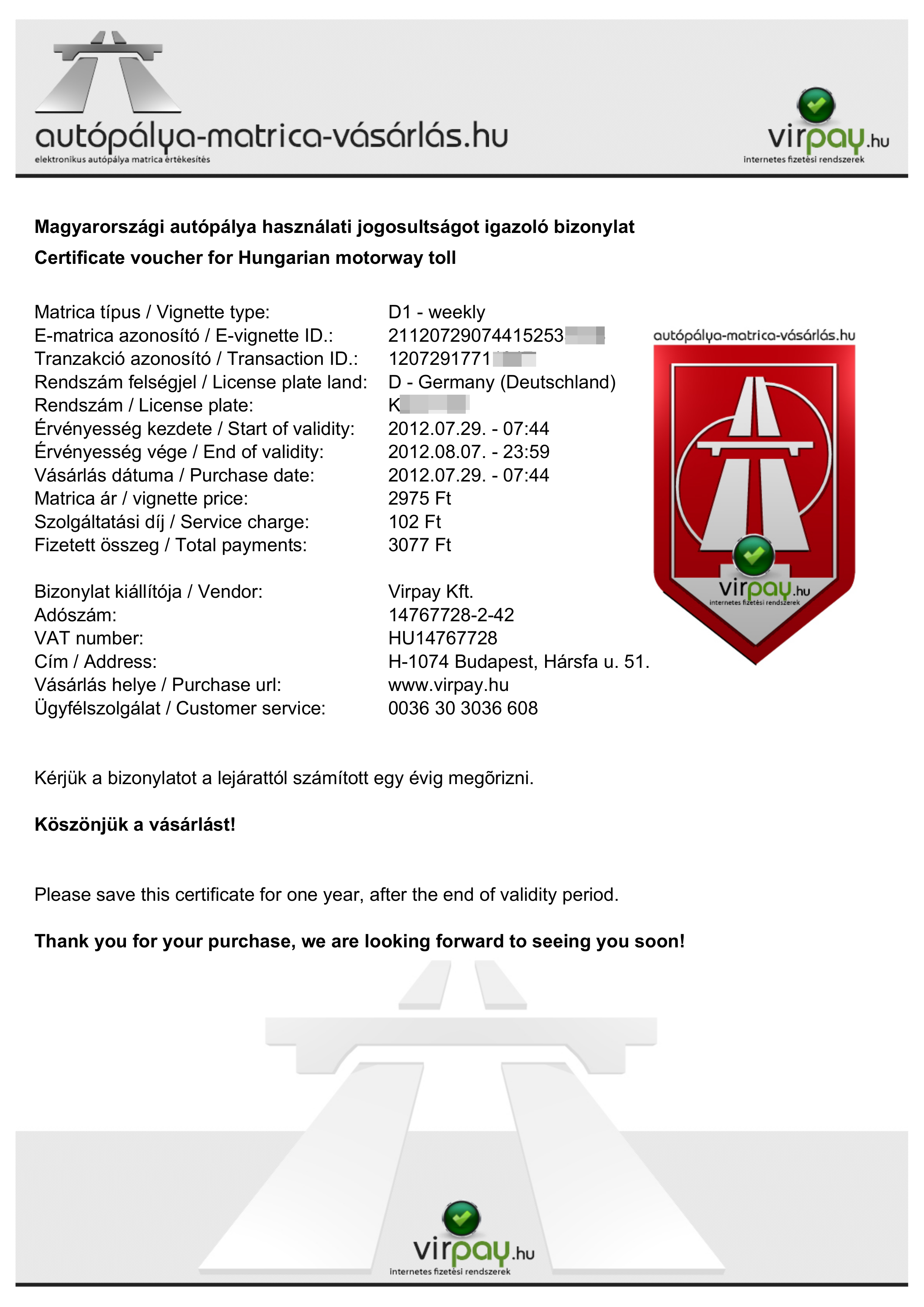 Certificate voucher for Hungarian motorway toll. Paid via internet